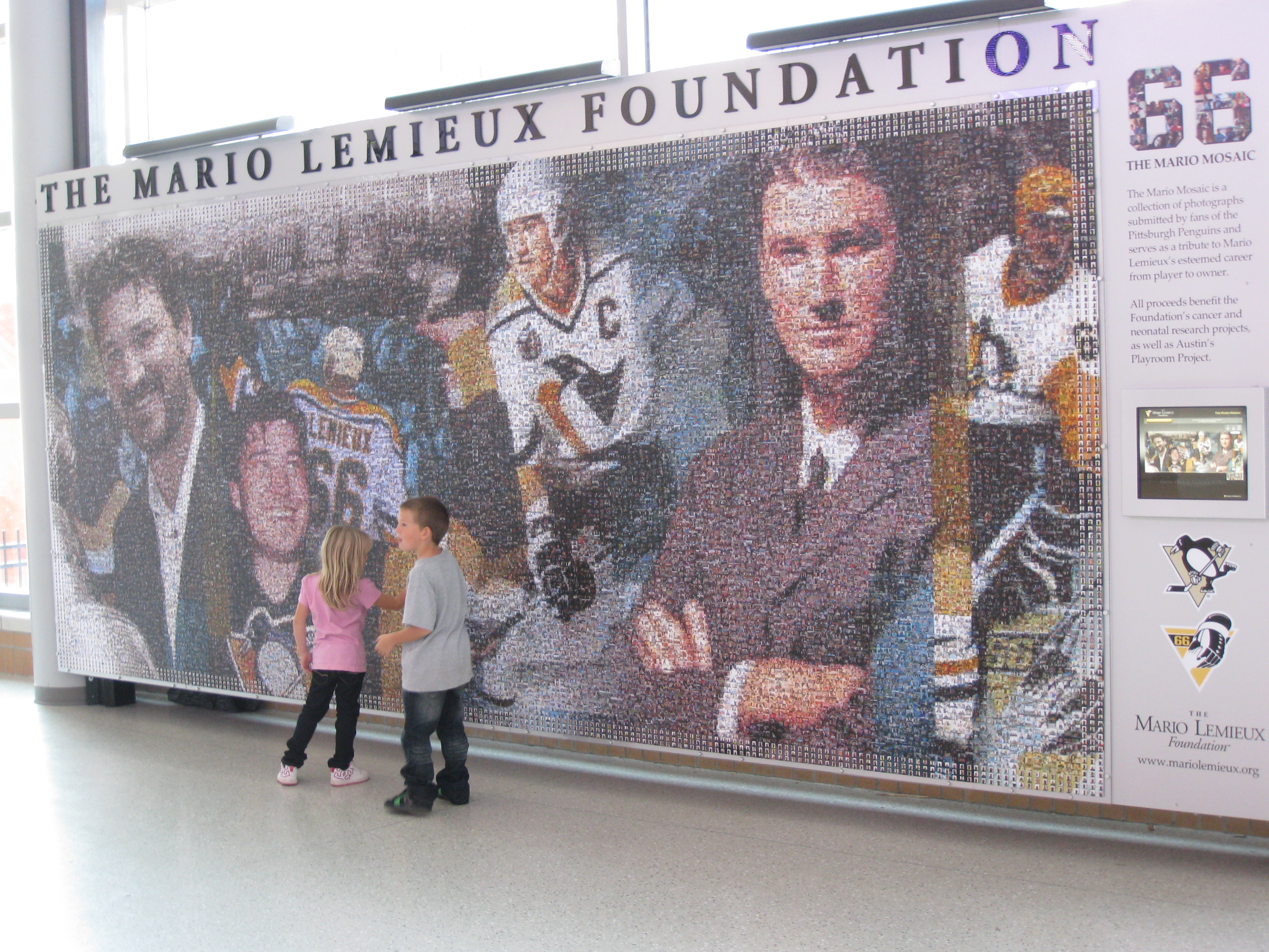 The Mario Mosaic #66